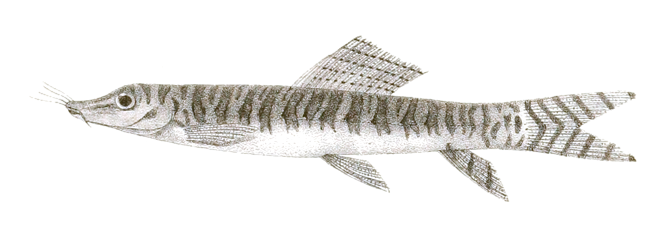 The species names / identity need verification - original names from plate are included here. The original plates showed the fishes facing right and have been flipped here. Nemachilichthys ruppelli